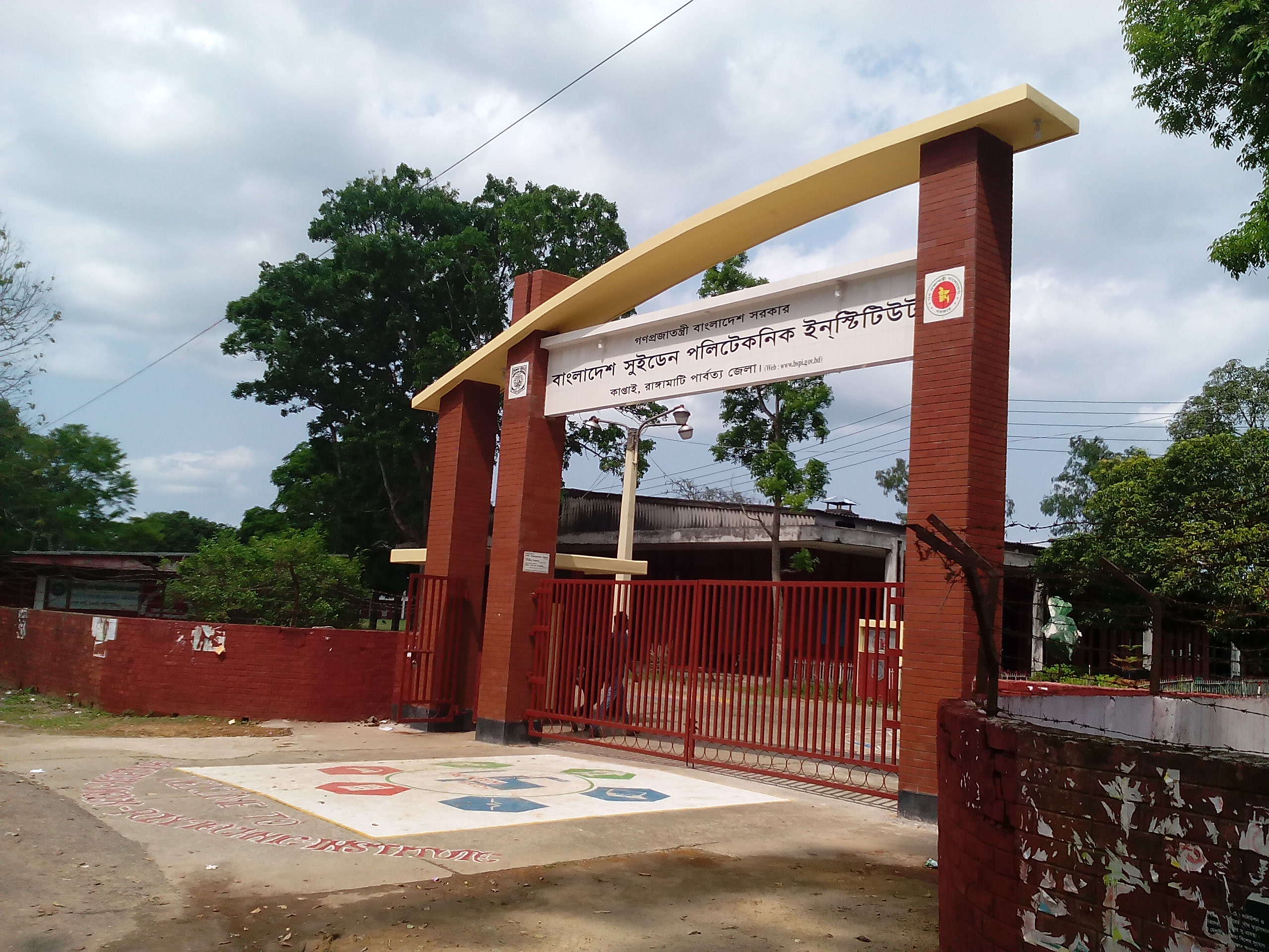 Main gate of BSPI